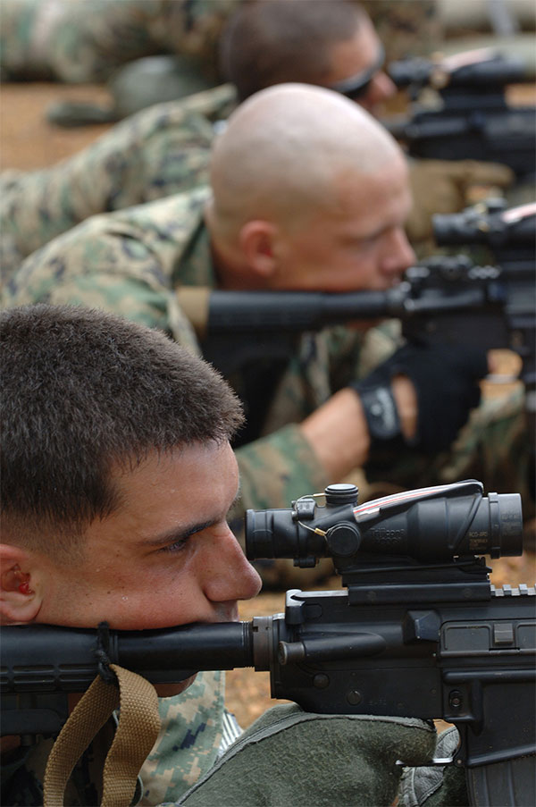 Marines from the Marine Special Operations Command (MARSOC) take aim with their M4A1 carbines during training. The Marines' M4s are fitted with Trijicon ACOG sights.